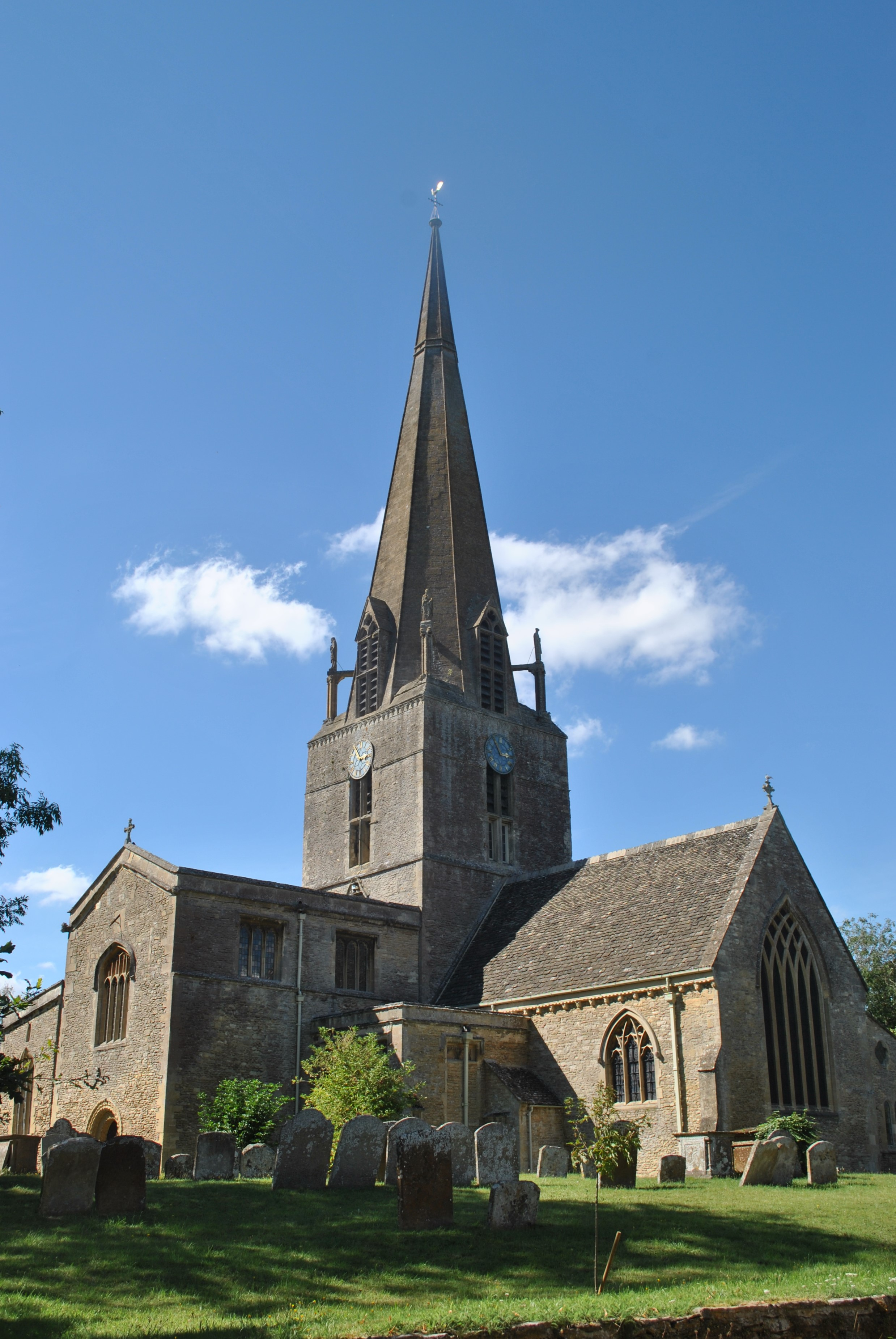 St Mary the Virgin Church, Bampton, Oxfordshire